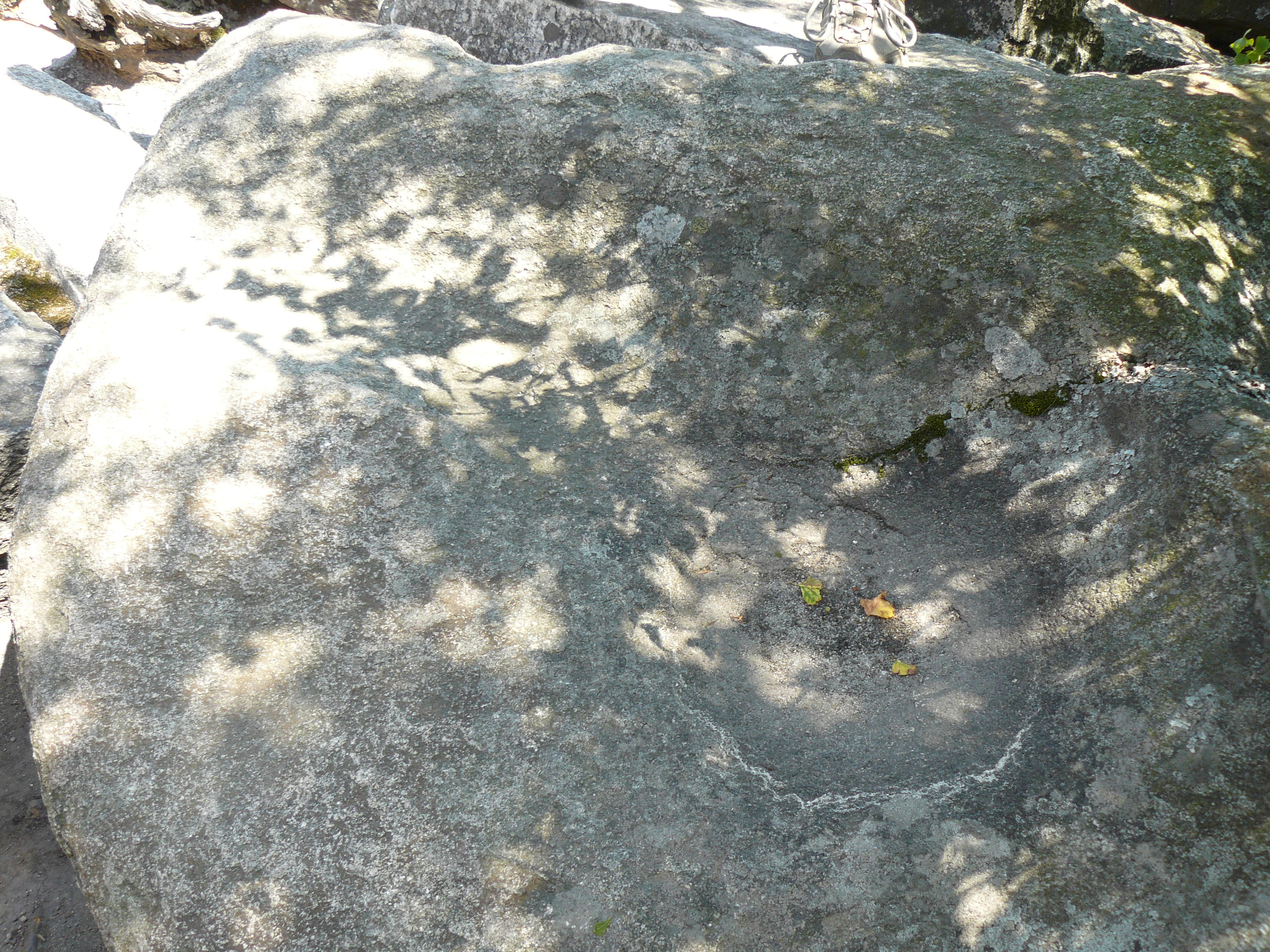 Natural monument Máchova skála, Jihlava District, Czech Republic.